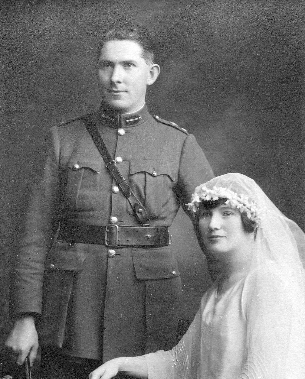 Seán Mac Eoin upon his wedding day, 21 June 1922